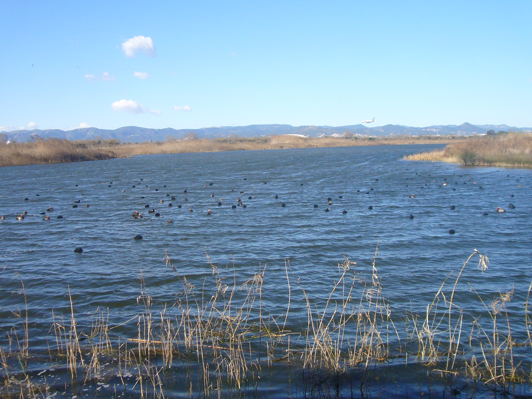 Natural reserve of the Llobregat Delta.